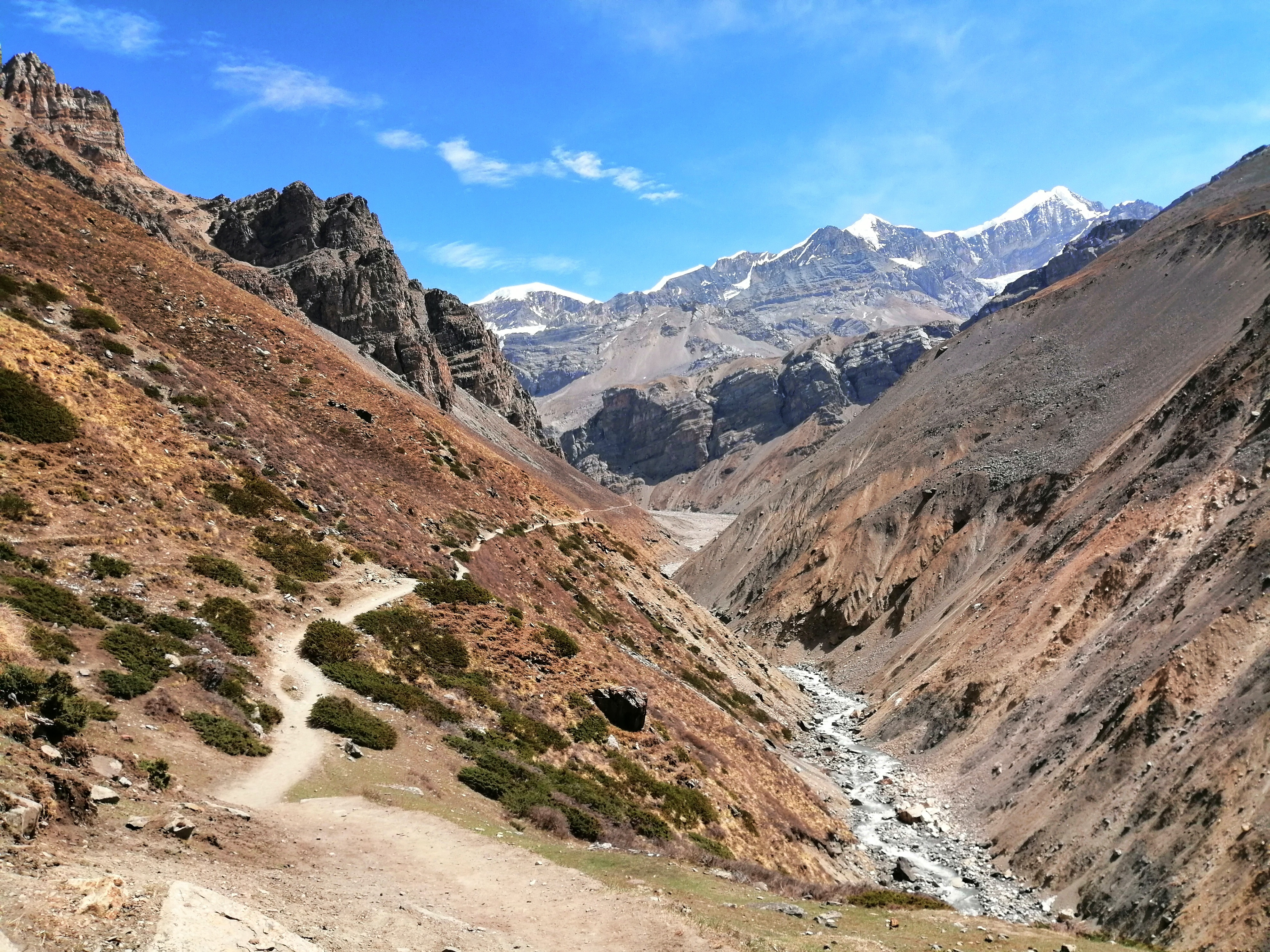 near throng la pass